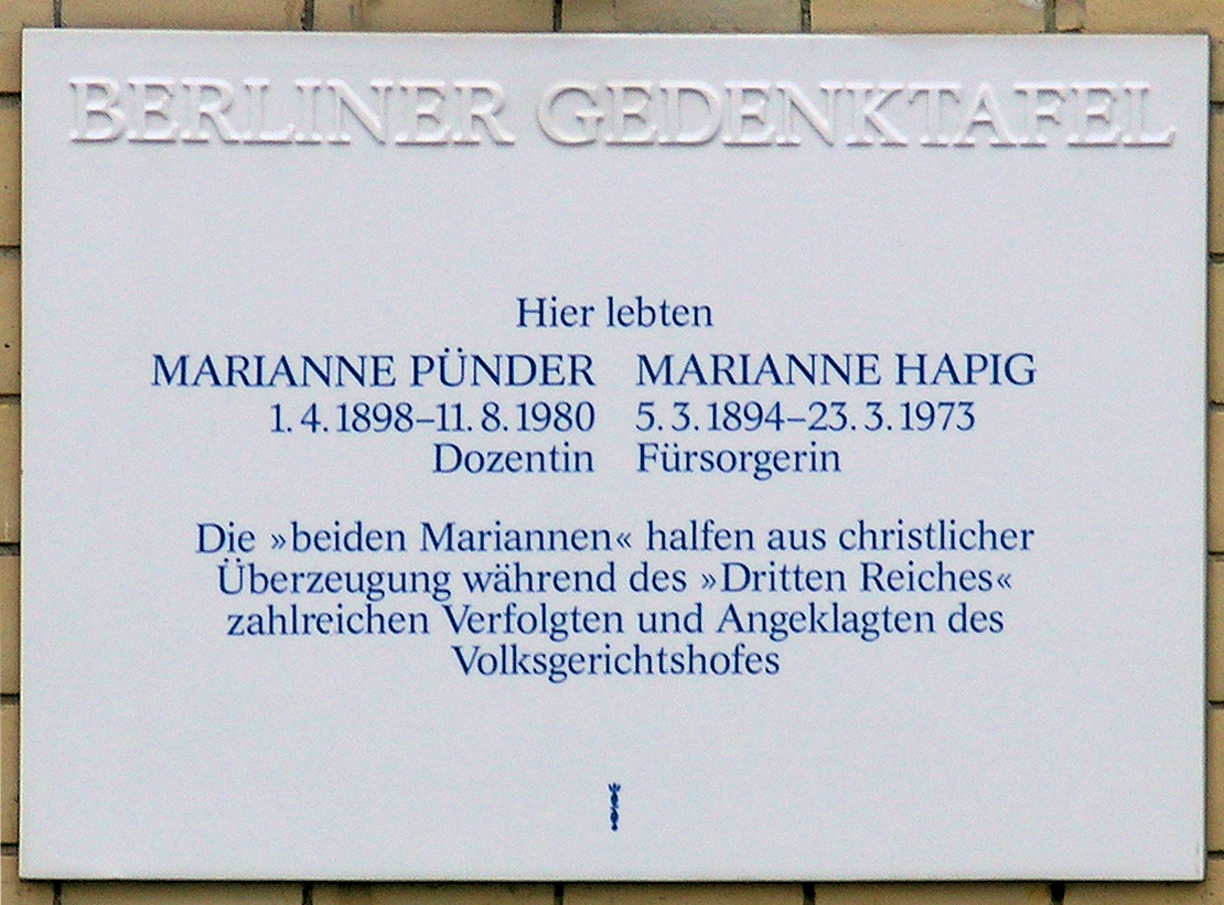 Berlin memorial plaque, Marianne Hapig and Marianne Pünder, Marienstraße 15, Berlin-Lichterfelde, Germany